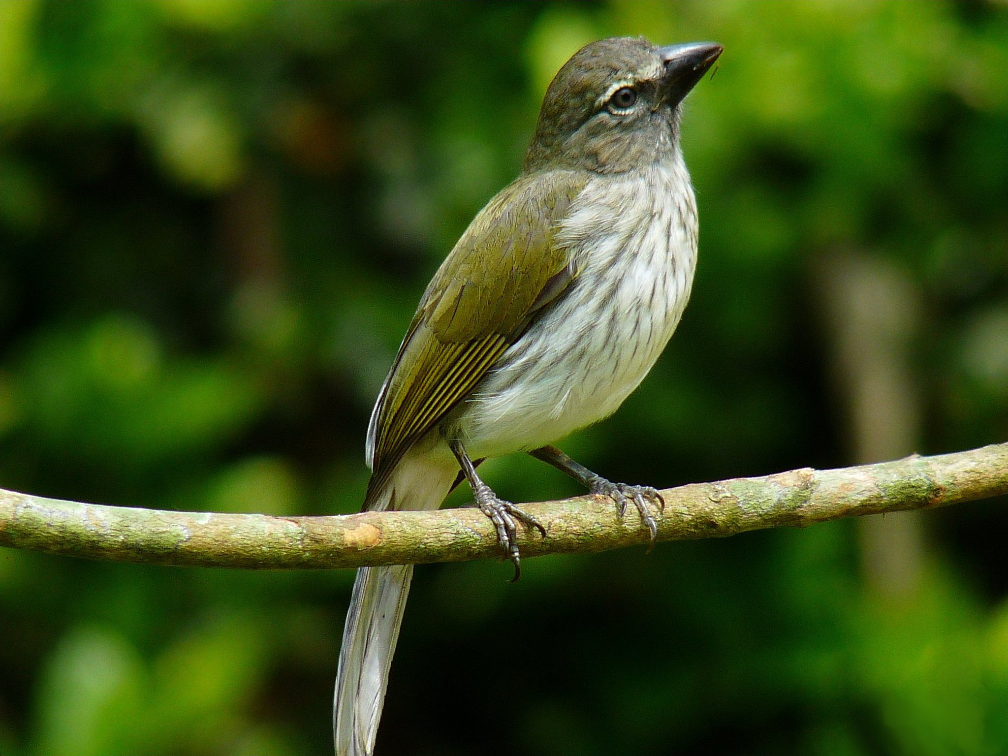 A Streaked Saltator in Manizales, Caldas, Colombia.